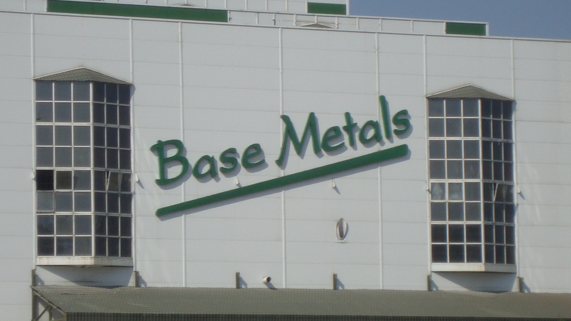 Base Metals factory in the village Drmbon. Martakert district, Republic of Mountainous Karabakh (Artsakh).